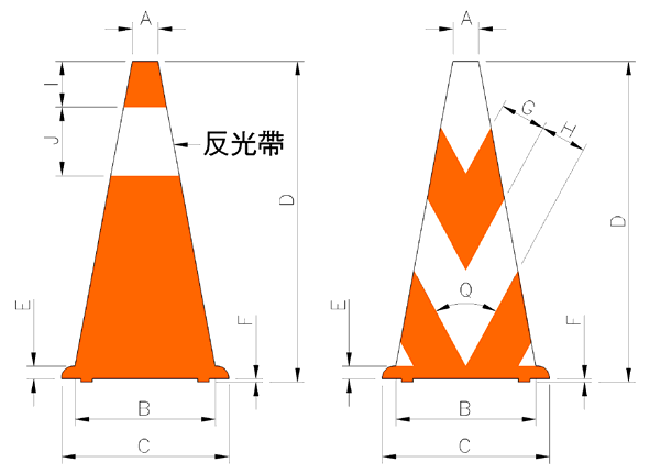 Taiwanese Auxiliary Sign: Traffic Cone